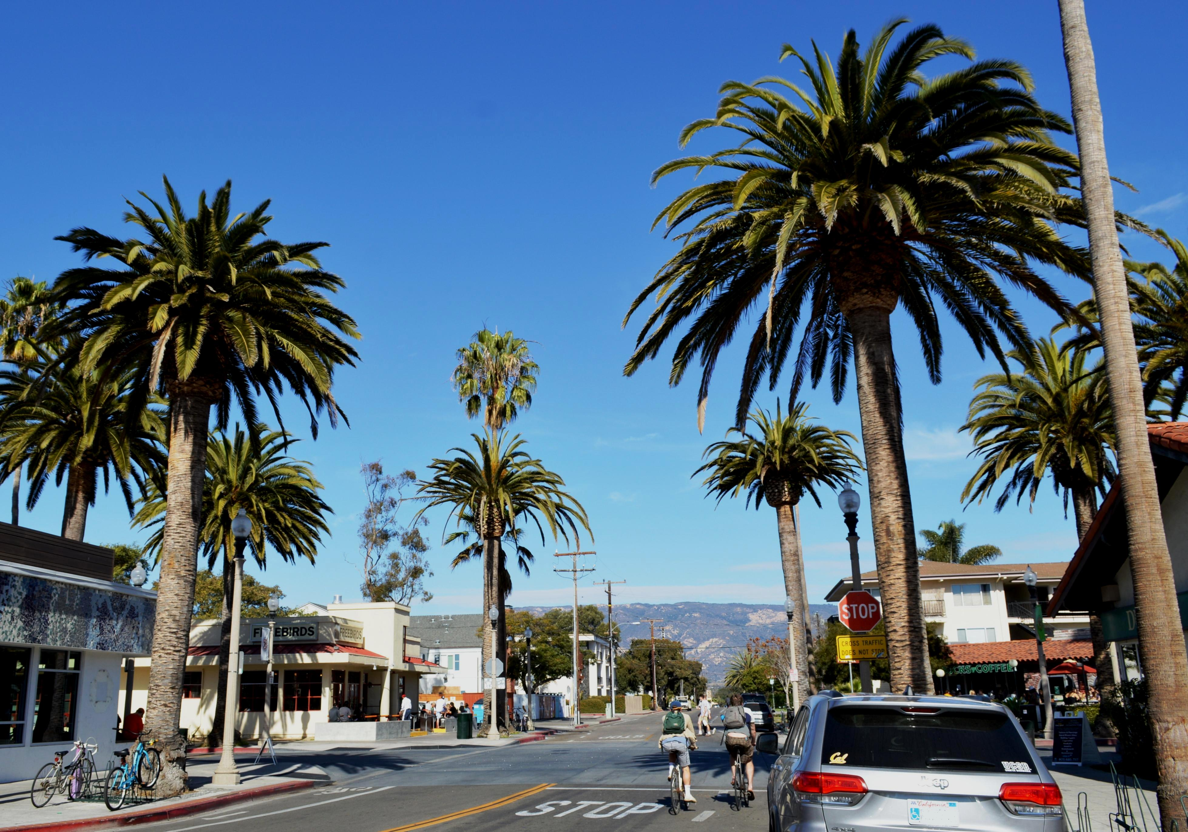 View of the Santa Ynez Mountains from Isla Vista, California, U.S.A.